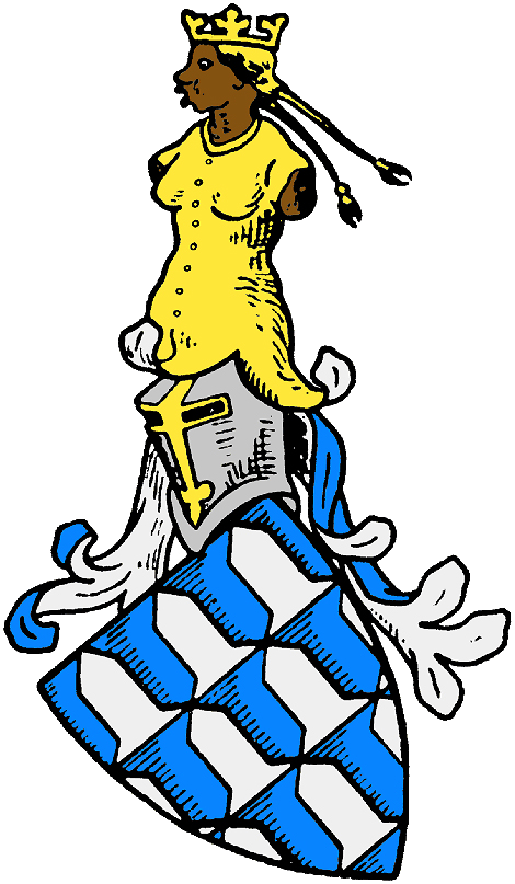 Arms of the Holy Roman Empire state of Pappenheim, based on German Wiki version